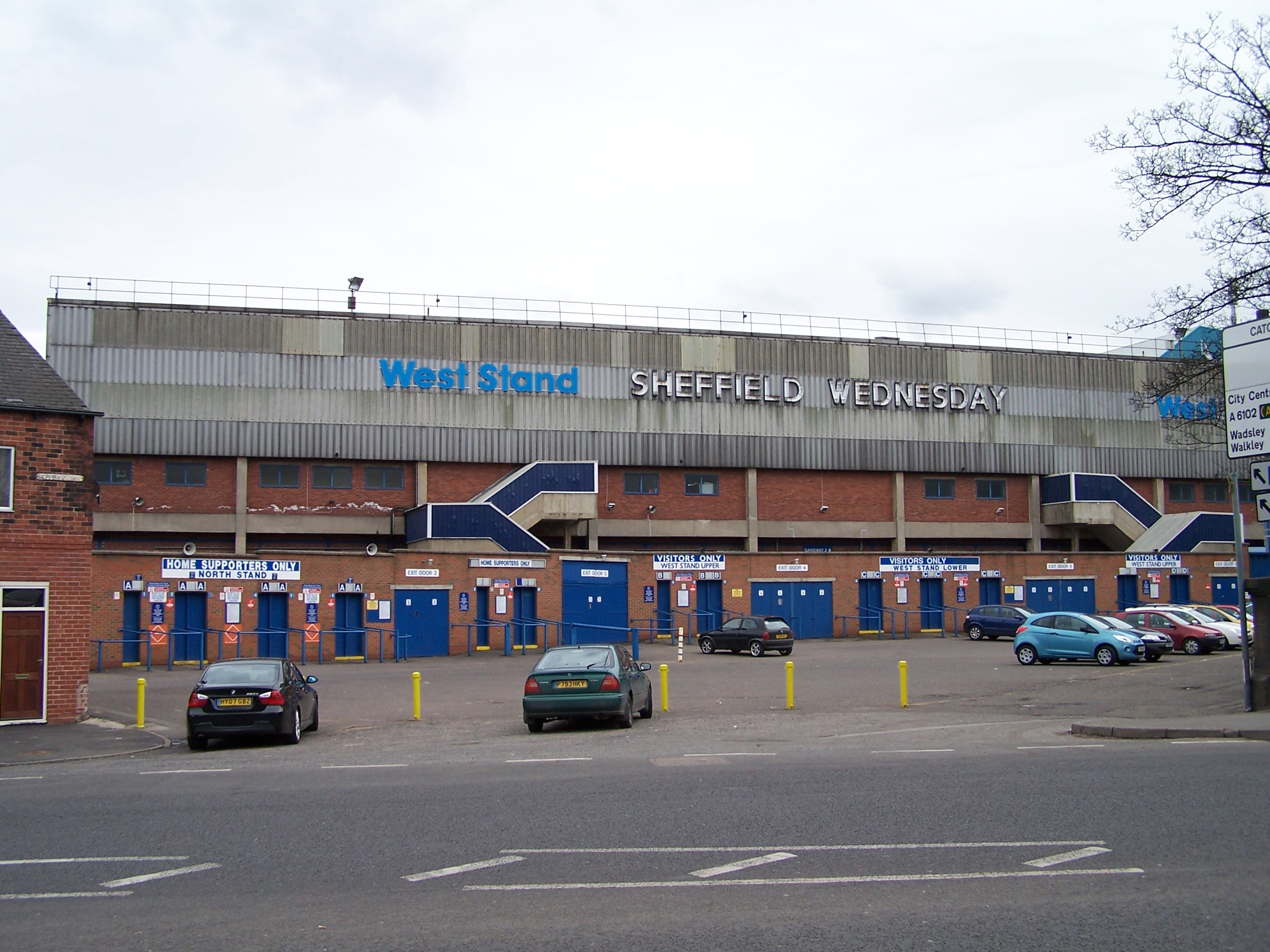 West Stand, Hillsborough Stadium, Sheffield. The 'infamous' West Stand at Hillsborough, accessible from Leppings Lane. Many 'away' supporters will have had some great times here ... many, sadly, have very unhappy memories. For more views of the ground see ... 1256262 ... For a view of the Hillsborough Disaster Memorial see ...1254629